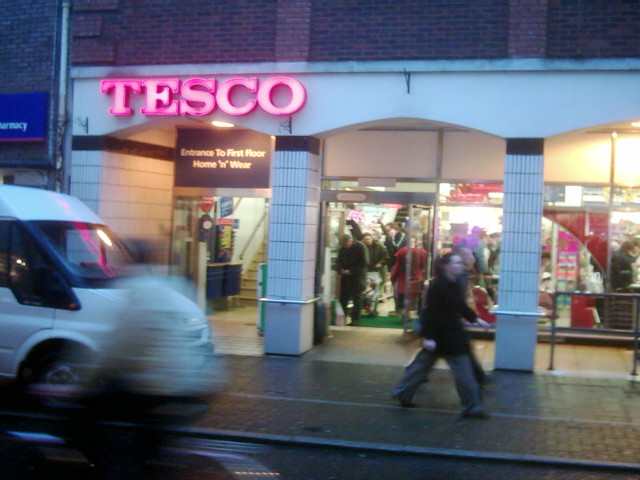 Tiverton : Tesco Tesco was the only building in Tiverton to have an escalator.